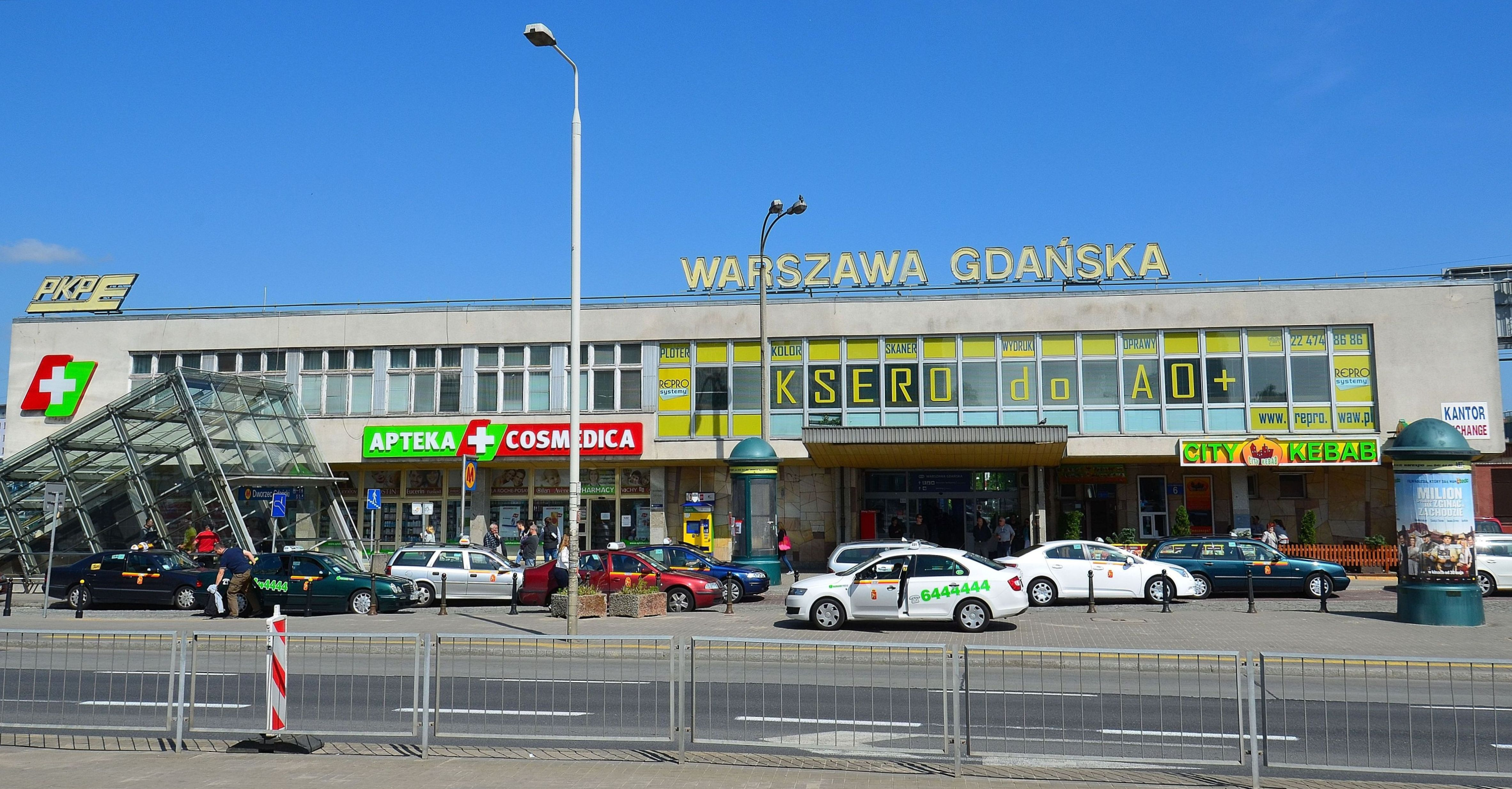 Warszawa Gdańska railway station viewed from Słomińskiego Street